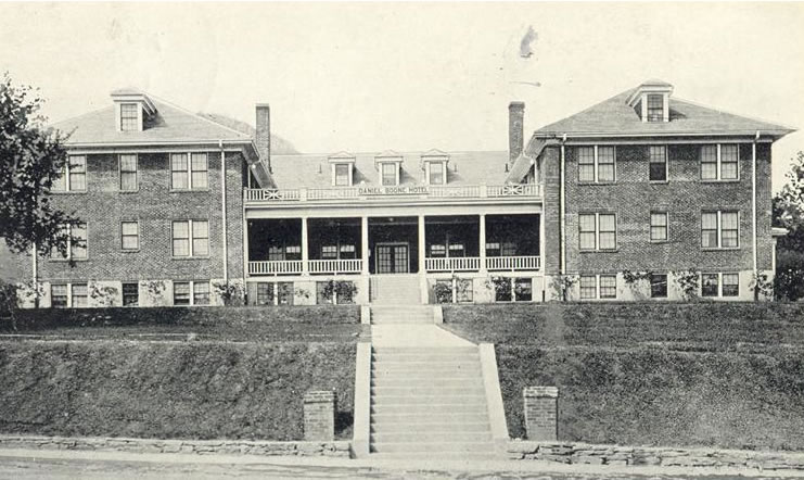 Daniel Boone Hotel photo postcard from personal collection, Photo was shot prior to August 1927.